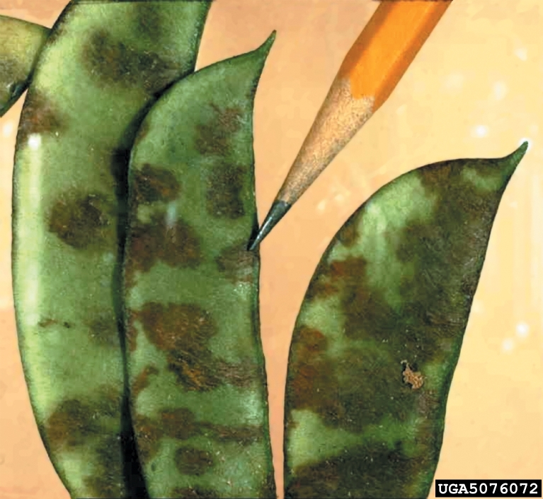 Bean anthracnose Colletotrichum lindemuthianum Large, brick red to brown, irregular shaped splotches on pods. Small, thin lesions of the same color can be seen on stems. Causes irregular seed development.